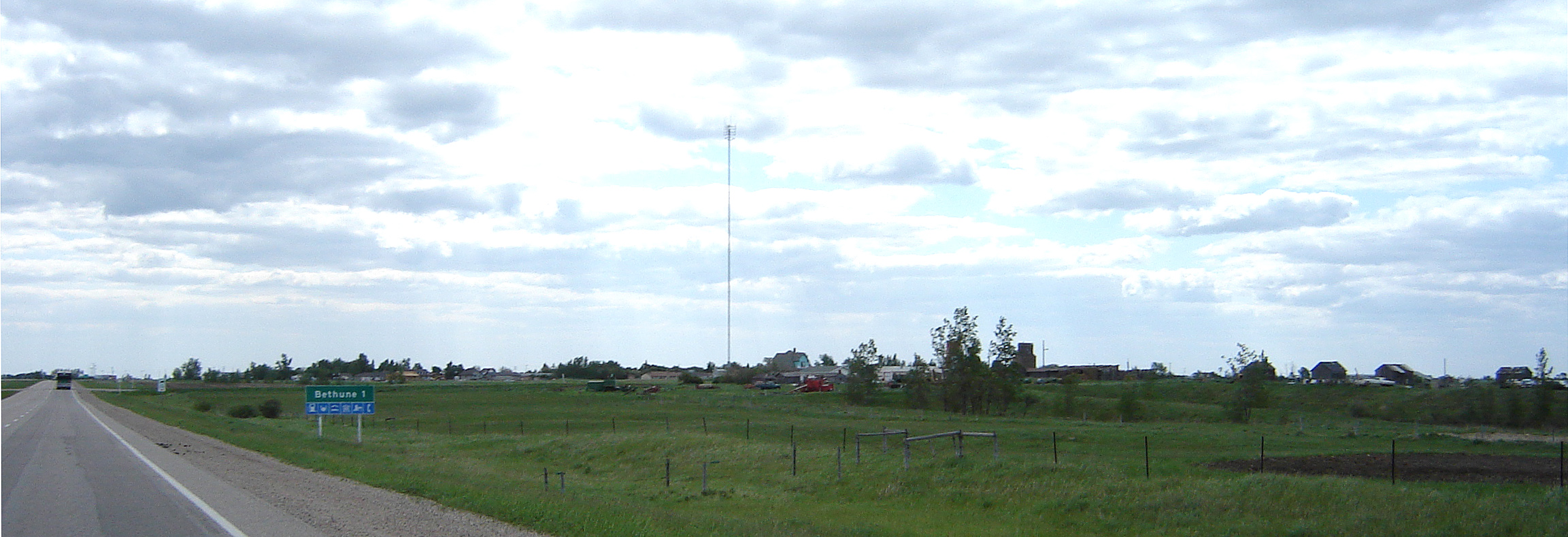 Bethune Photo taken from Saskatchewan Highway 11, Louis Riel Trail travelling south from Saskatoon to Regina